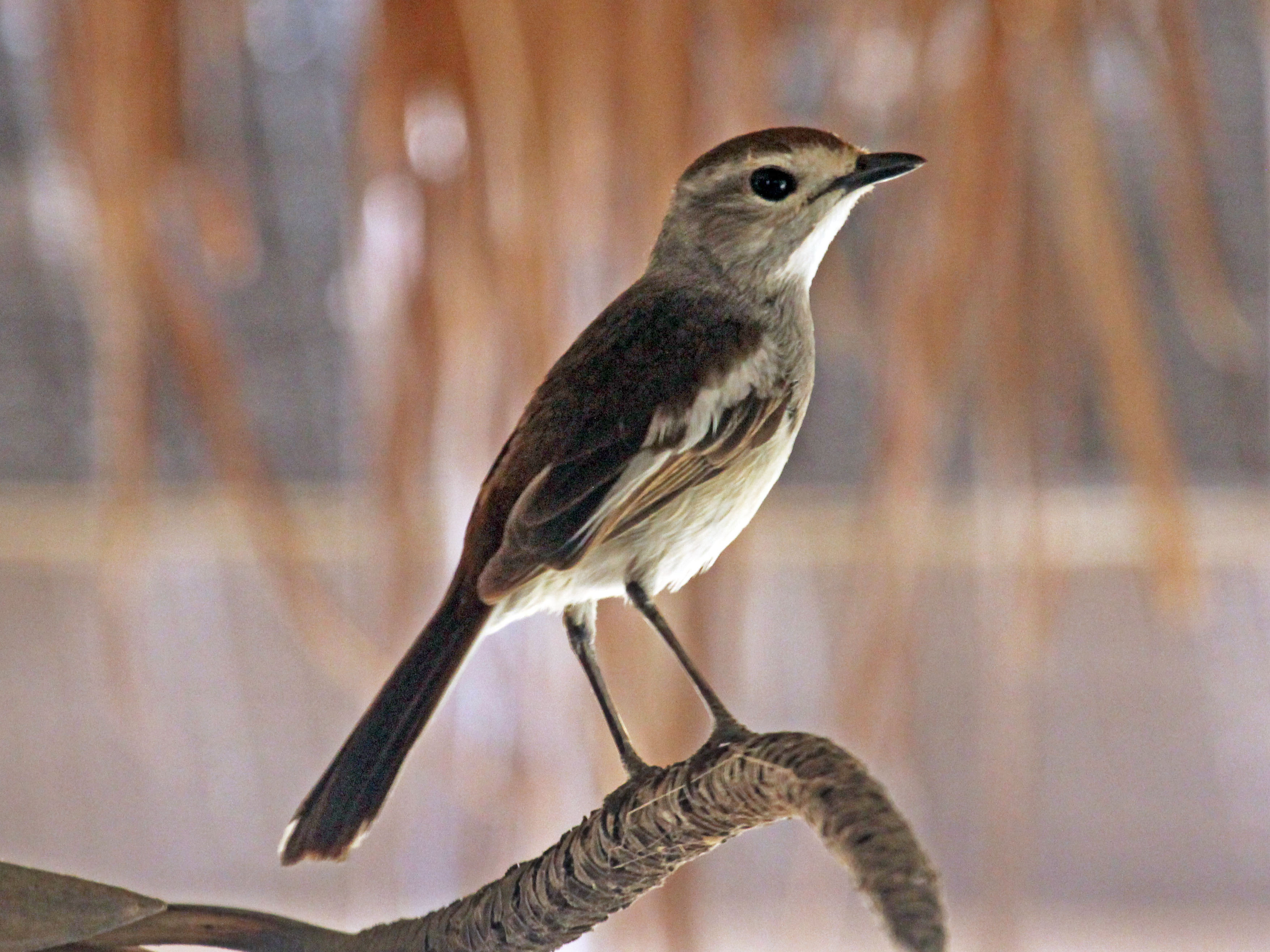 Female Madagascar Magpie Robin (Copsychus albospecularis) - near Isalo, Madagascar